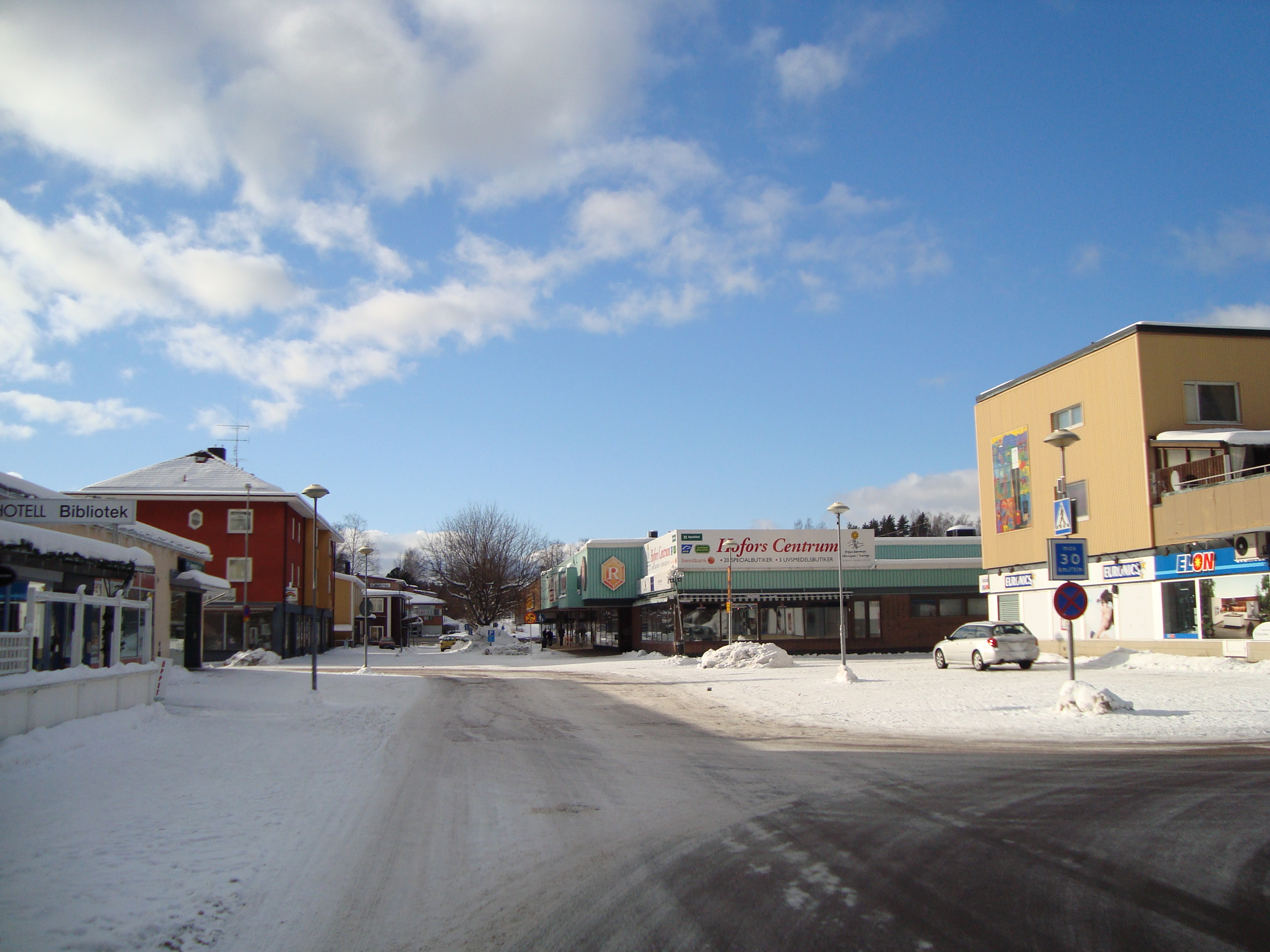 Center of Hofors town, Sweden